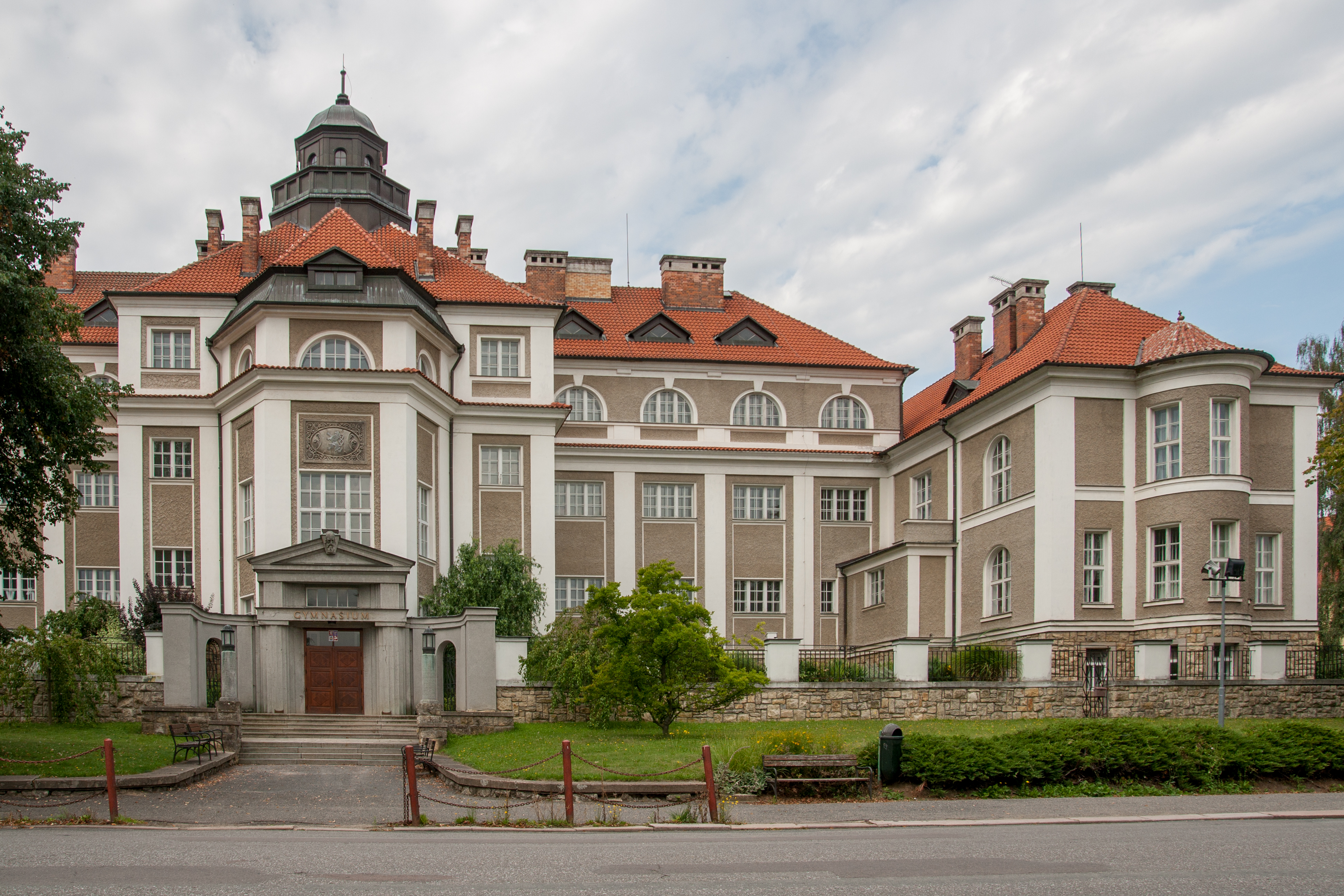 Alois Jirásek gymnasium (school) in Litomyšl, Svitavy District, Pardubice Region, Czechia